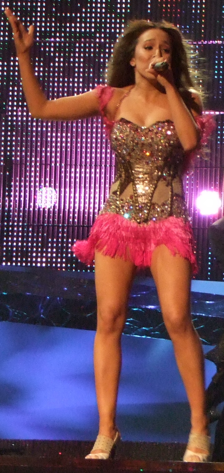 Eurovision Song Contest 2008, 1st semifinalGreece: Kalomoira - Secret combination